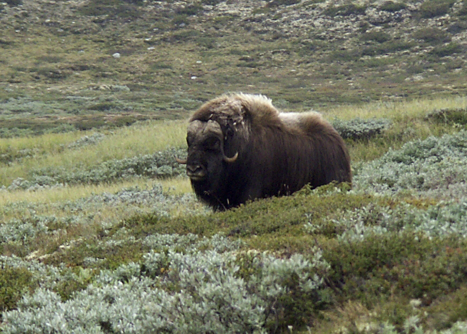 Muskox (Ovibos moschatus), picture taken on 30 August 2004 in Dovrefjell National Park, Norway